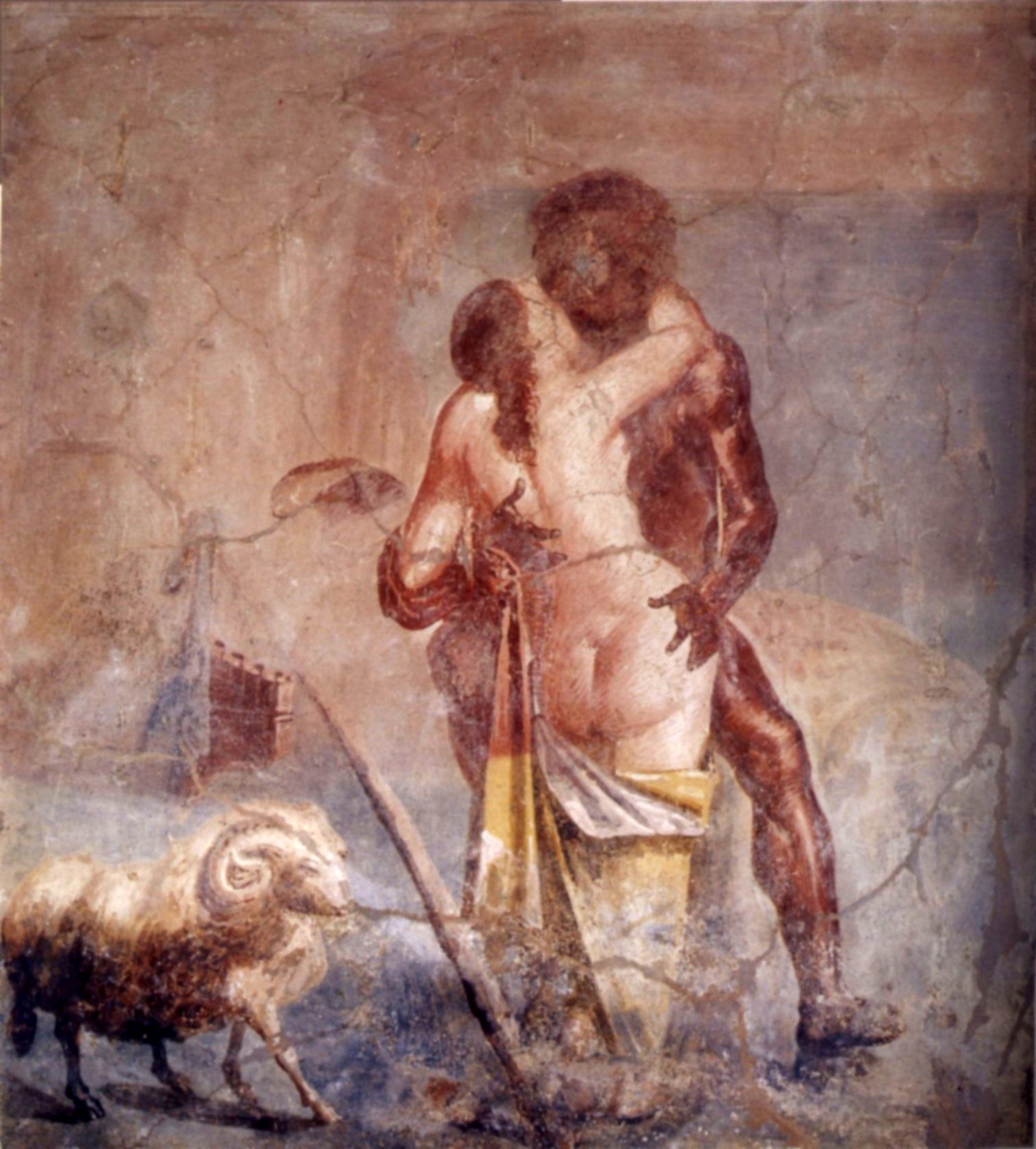 Fragment of wall painting depicting the Cyclop Polyphemus and the Nymph Galatea sensously kissing in the arms of each other. Also visible: ram, Pan flute, shepherd stick. Pompeii, House of the Ancient Hunt (VII, 4, 48).